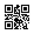 A QR code example. Coded text is ":v"